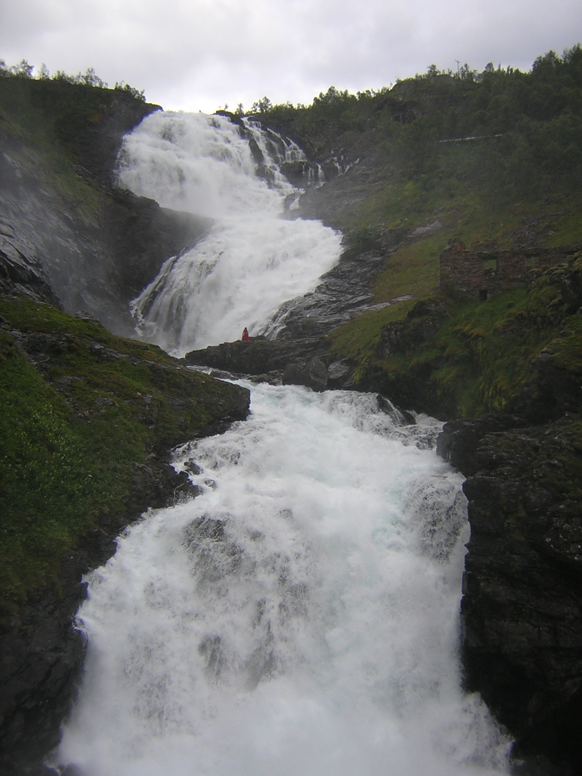 The Kjosfossen water fall in Norway.